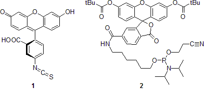 Structural formulas of FITC and 6-FAM phosphoramidite